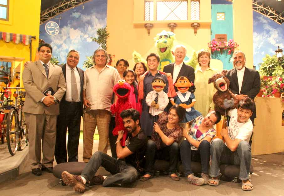 Usman Peerzada, Cameron Munter and his wife Dr. Marliyn Wyatt group photo with the artist & team of the sim sim hamara